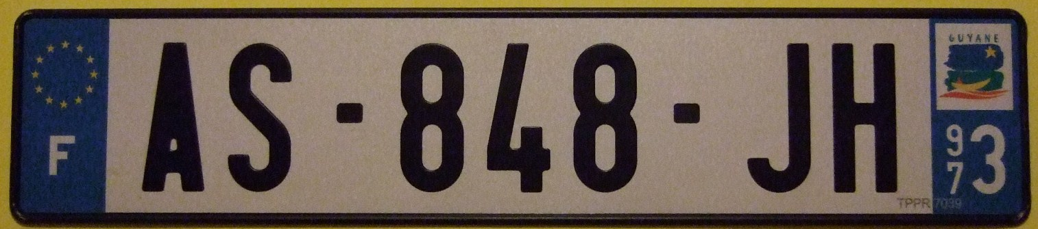 Full view of the current style on French Guiana license plates. French Guiana or Guyane is France's only possession in South America.